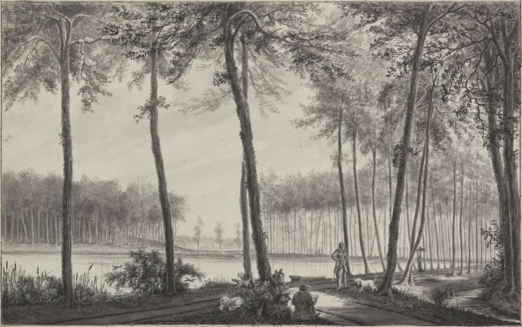 Drawing by Paul Vitzthumb of the pond at Hertoginnedal